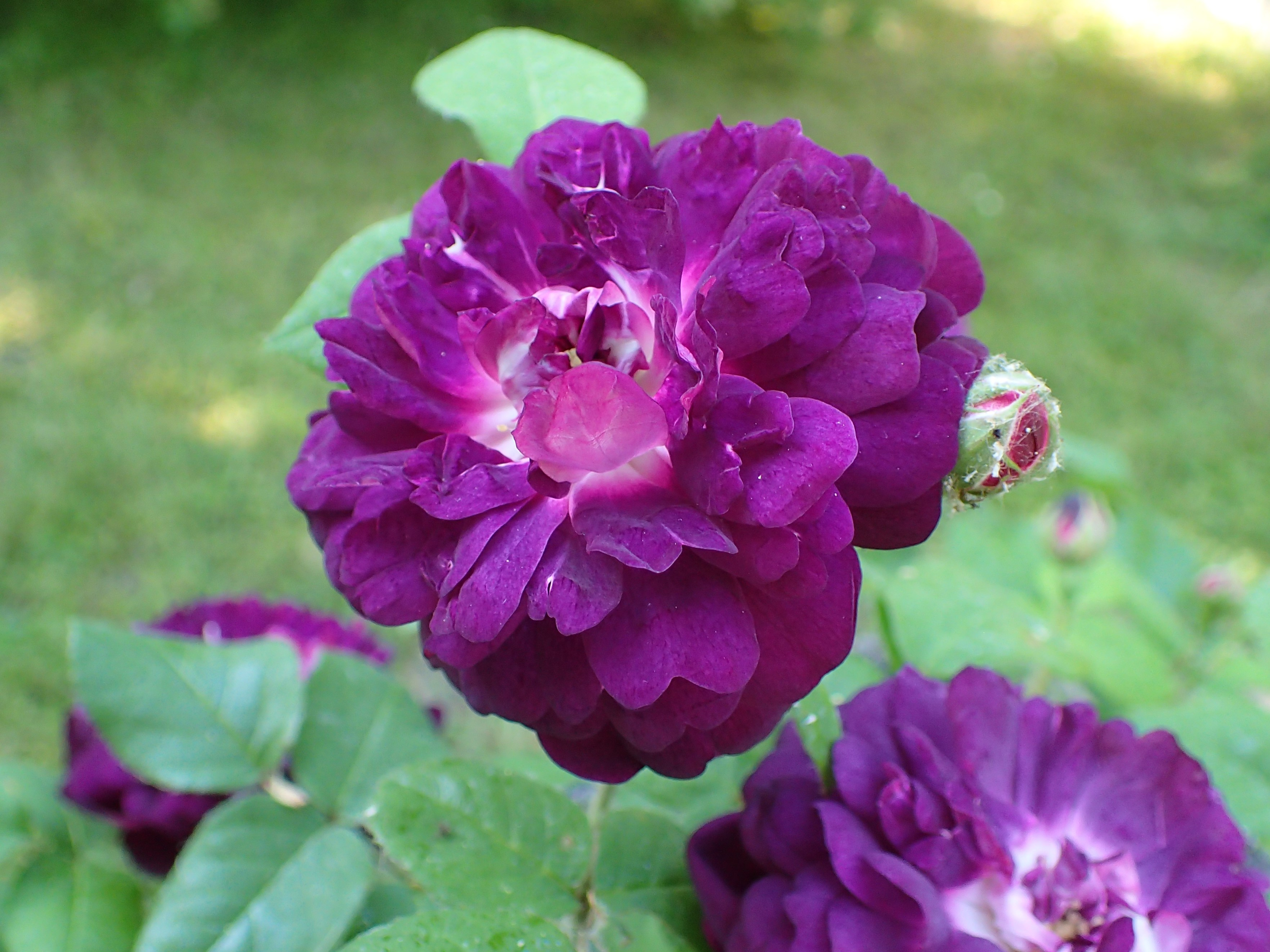 Rosa 'Cardinal de Richelieu' in Botanical Garden of Szeged